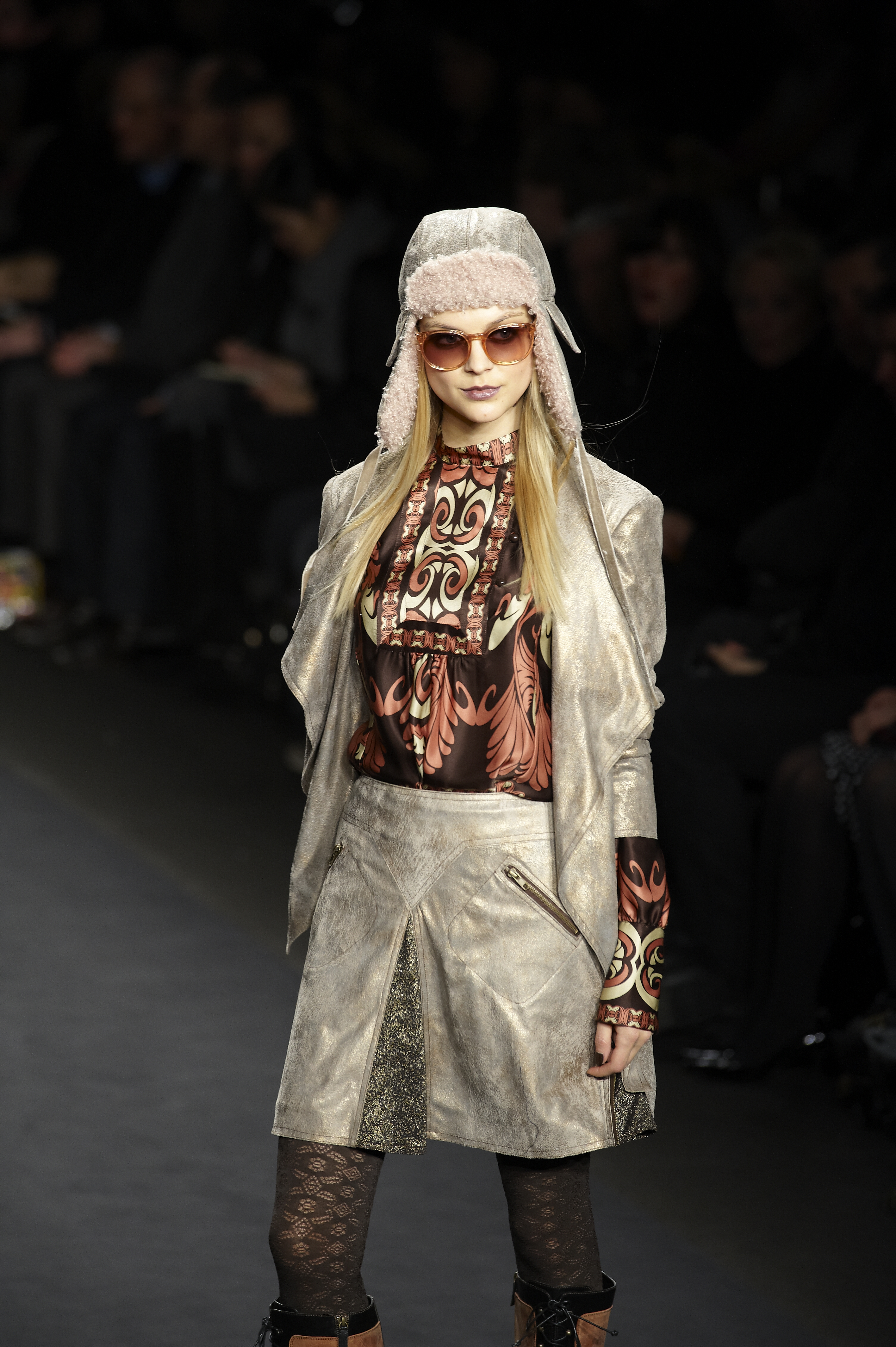 A model walks the runway at the Anna Sui Fall/Winter 2010 show at New York Fashion Week, February 2010.